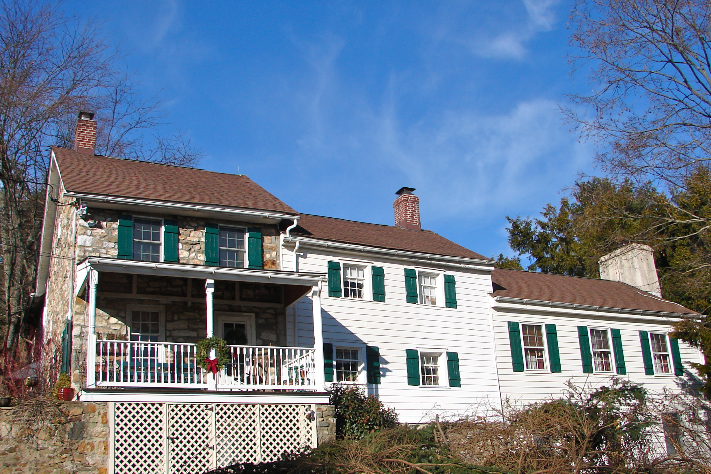 Robert Graham House on the NRHP since August 1, 1997. At 751 Crossan Rd., north of Newark, Delaware.